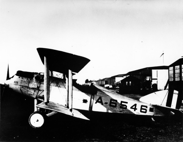 PictionID:40957271 - Catalog:Array - Title:Array - Filename:16_000312 Vought UO-1 A-6546 converted to UO-2 racer.tif - Ray Wagner was Archivist at the San Diego Air and Space Museum for several years and is an author of several books on aviation --- ---Please Tag these images so that the information can be permanently stored with the digital file.---Repository: San Diego Air and Space Museum